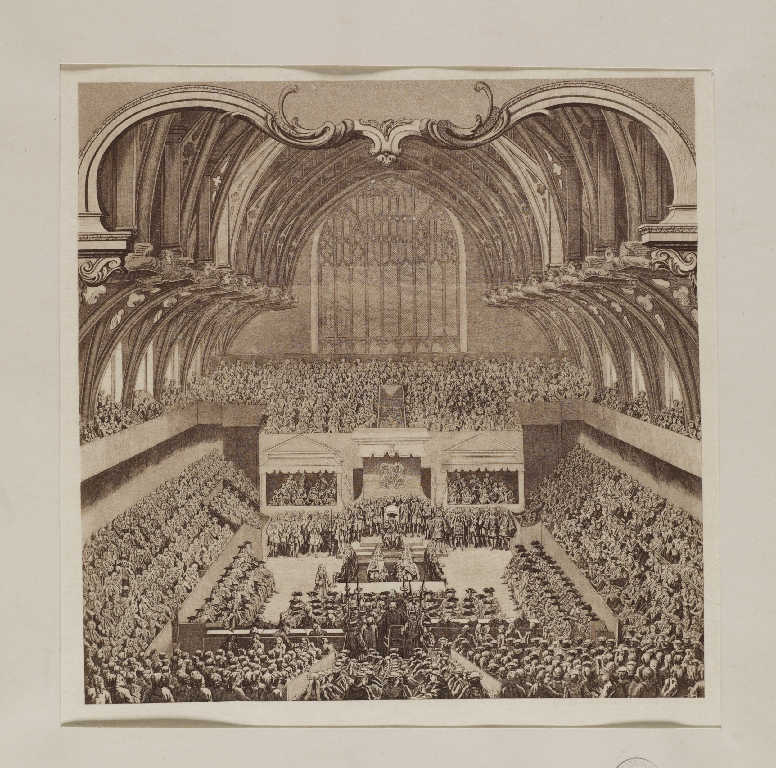 Engraving of Westminster Hall during the trial of Lord Lovat Show Lord Lovat's trial, building completely full for trial